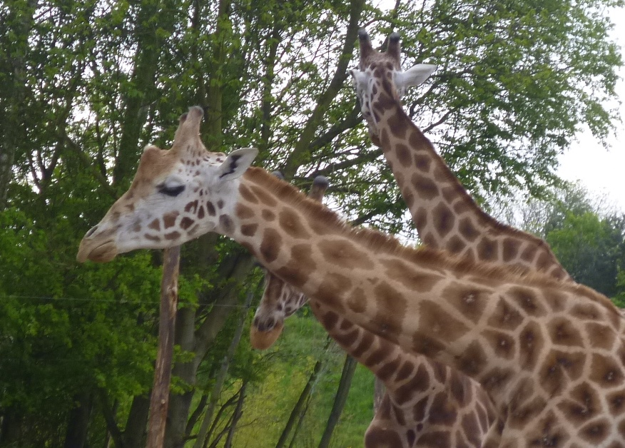 Giraffe on Zufari cropped.